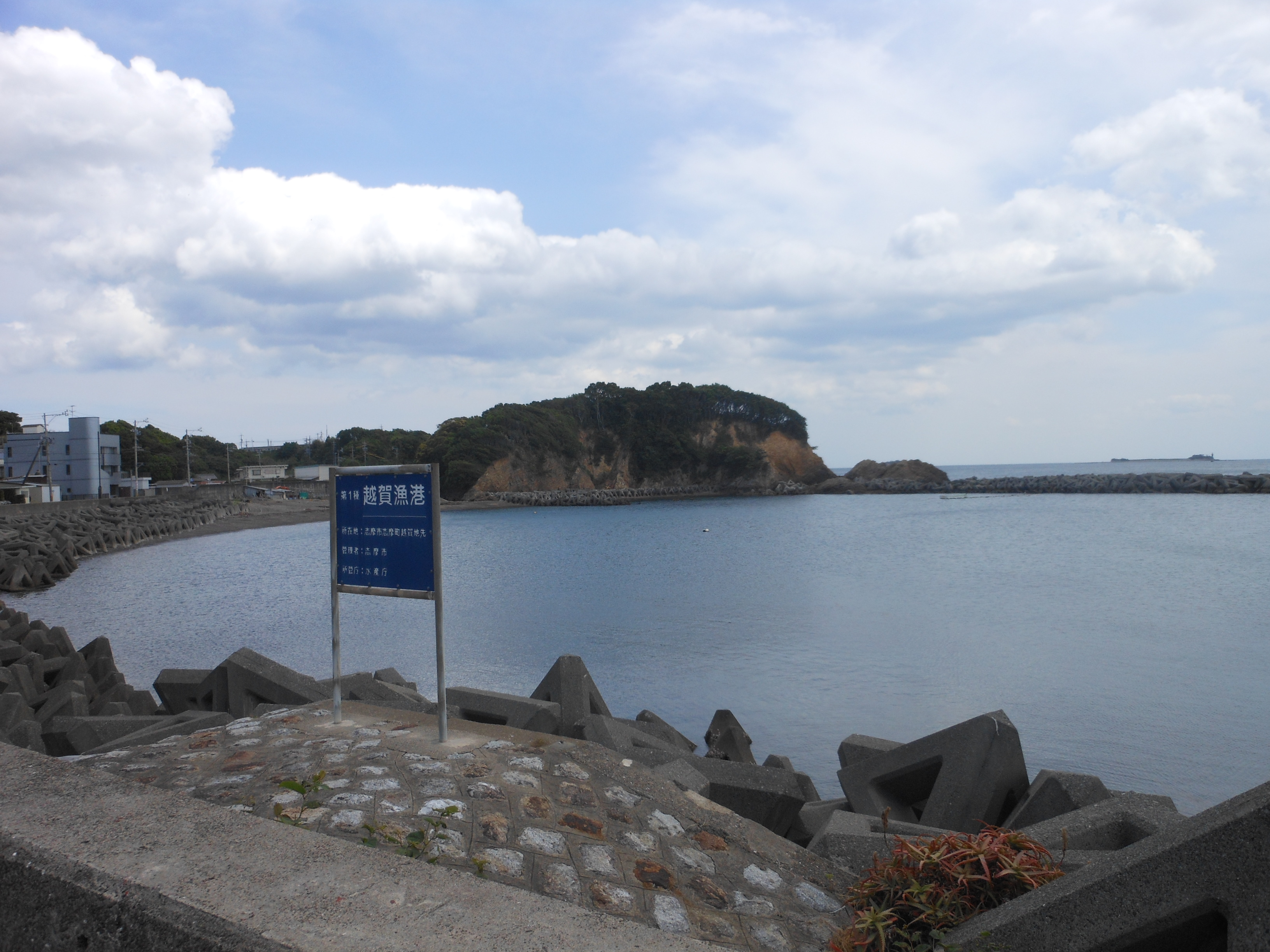 This is the Koshika Fishing Port, which is located in Shimacho-Koshika, Shima, Mie, Japan.